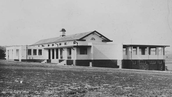 Photo of Telopea Park School around the time of its opening c.1923Telopea misspelled telopia on this page